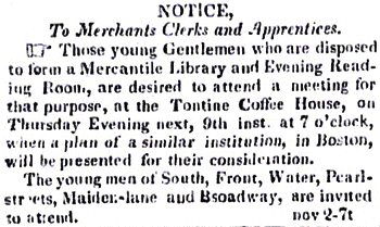 An advertisement excerpted from the New York Commercail Advertiser, November 2, 1820